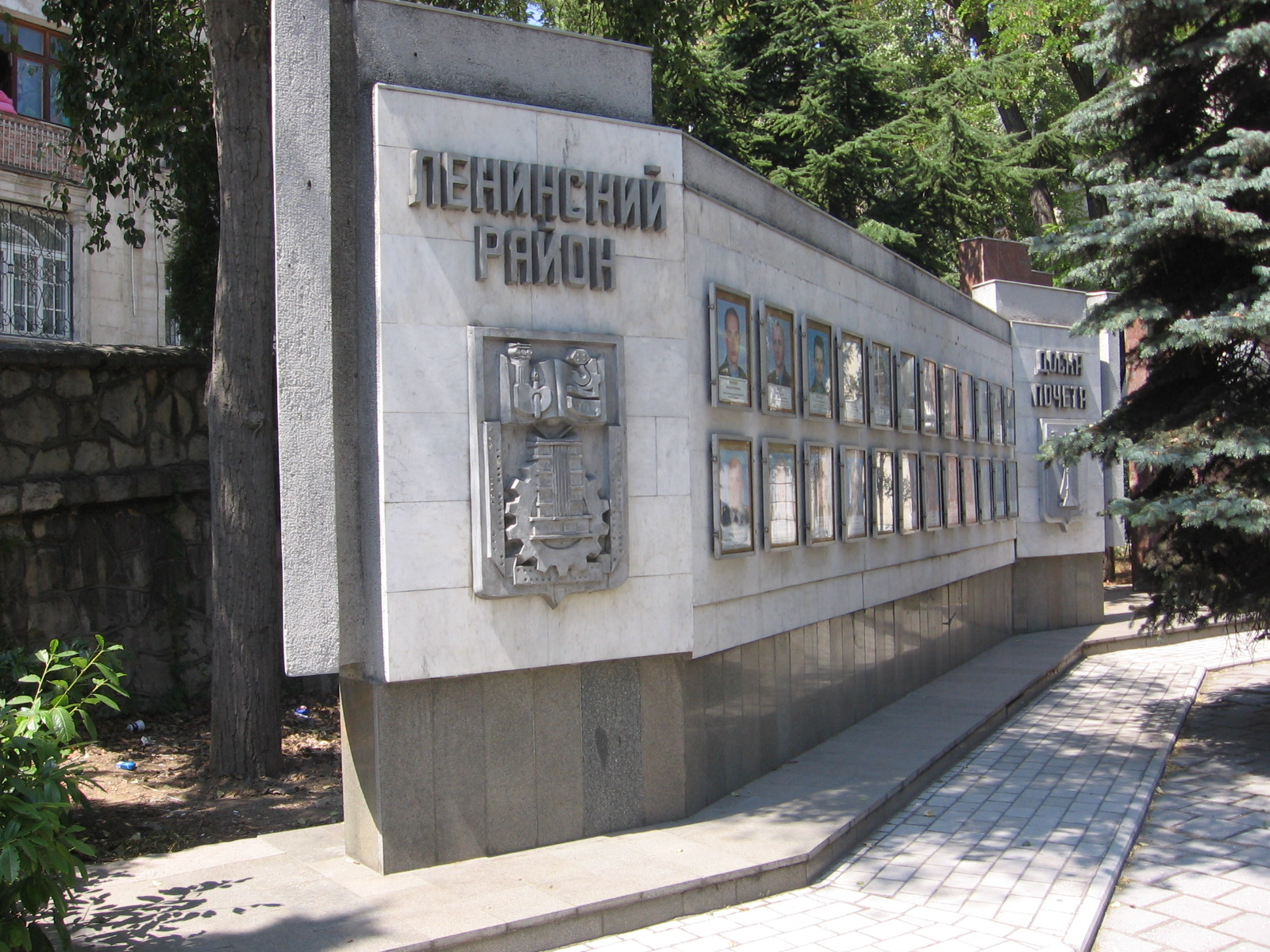 Lenin District of Sevastopol Honor Board. Updated annually as of 2007.